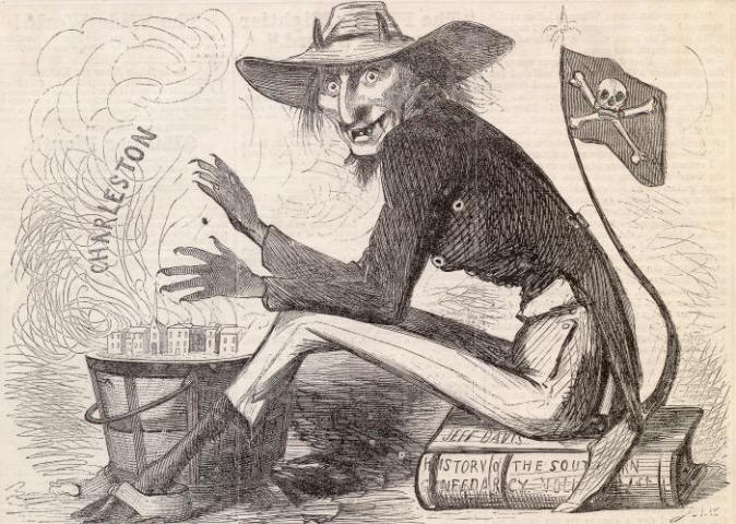 1862 cartoon of Jefferson Davis as a demon, warming his hands over burning Charleston. He sits on a book labeled "History of the Southern Confederacy". A skull-and-crossbones flag flies from his tail. Caption: KING JEFF THE FIRST. 'Let them burn! Let the women and children suffer! I'm bound to keep Warm!' Published in Harper's Weekly, January 4 1862, p. 16.